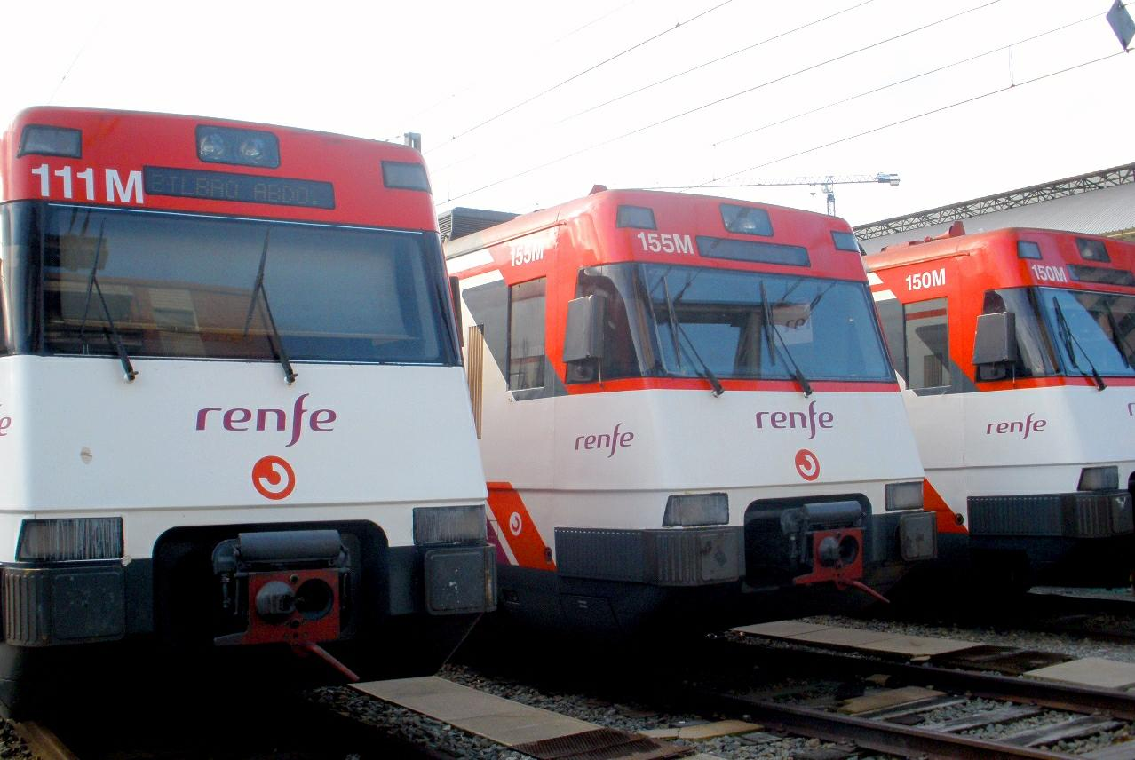 Unidades de trenes de cercanías de Renfe (clase 447) aparcados en la Estación de Abando Indalecio Prieto de Bilbao (España)